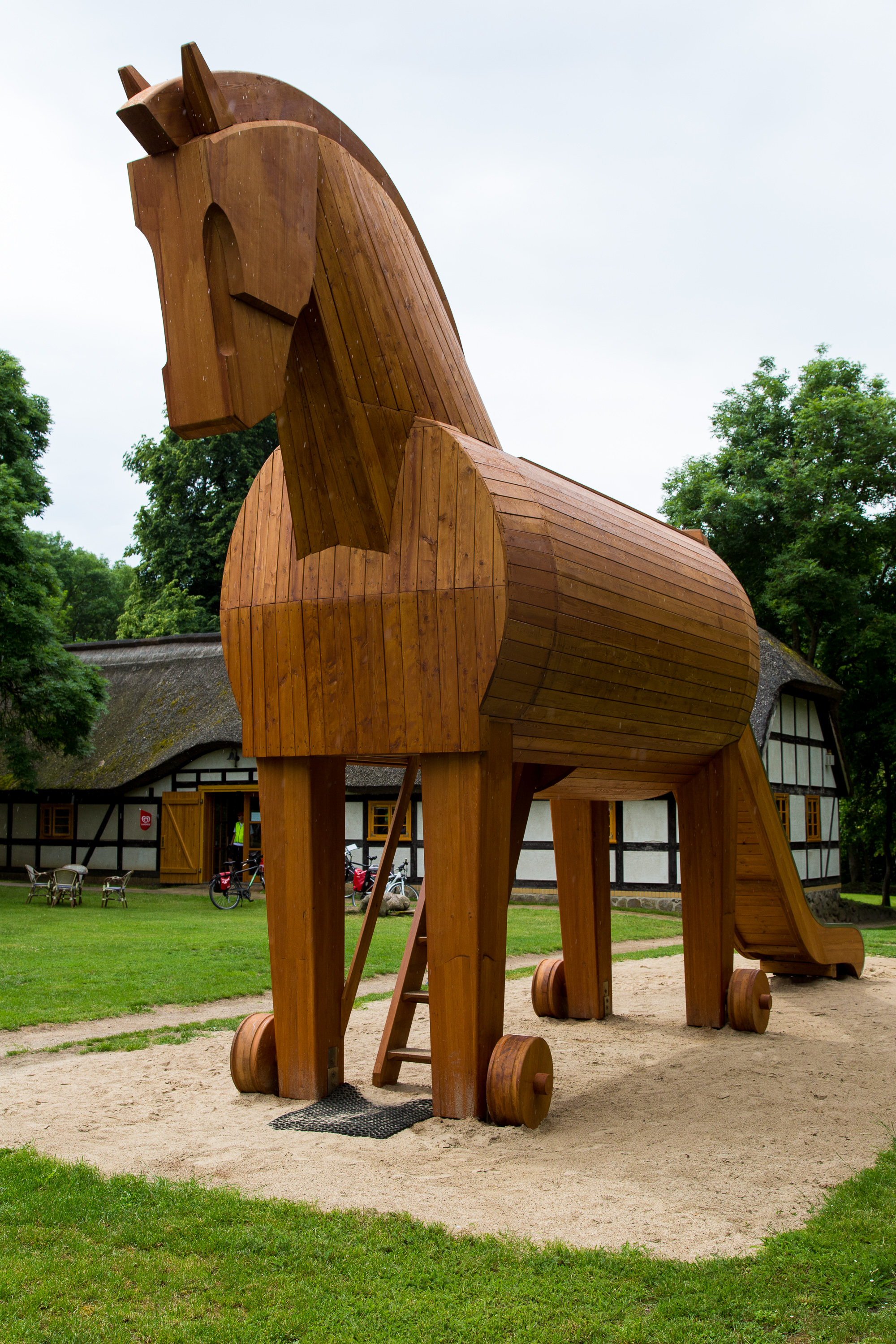 New construction (opening 2019) of the Trojan horse-shaped play equipment with slide at the Heinrich-Schliemann-Museum Ankershagen